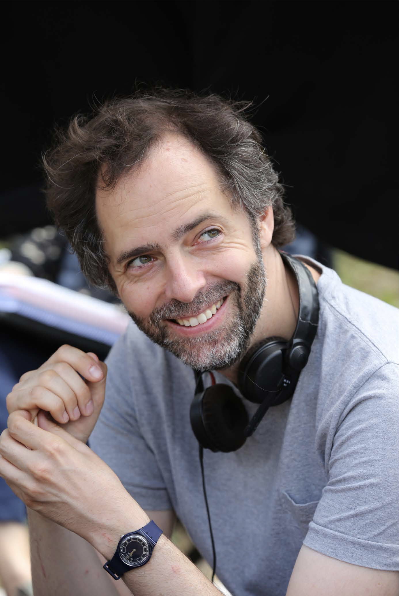 Julien Rappeneau, french scenarist